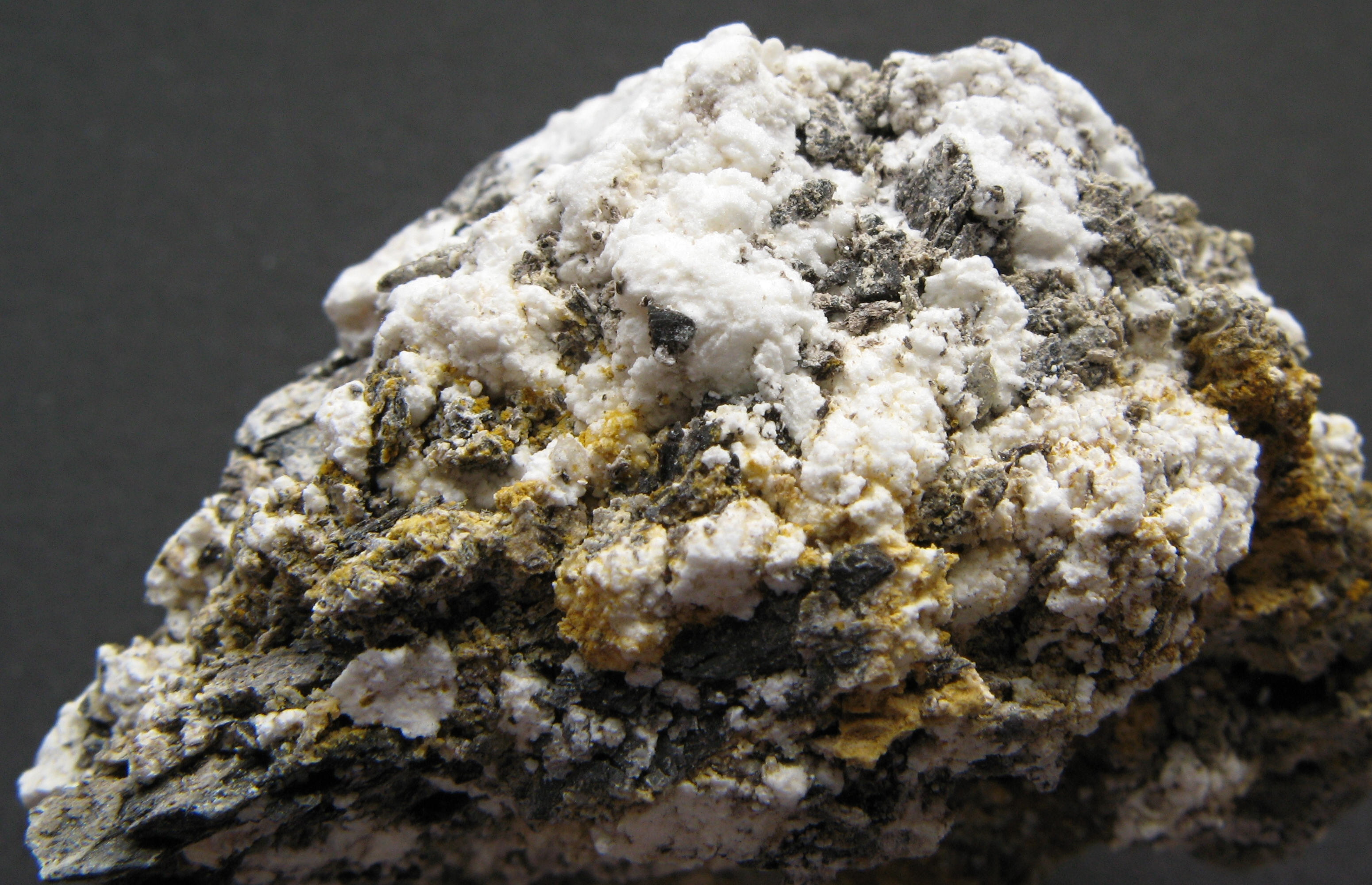 Rostite (Size 5 x 3.5 x 3 cm) Locality: Anna Mine I, Alsdorf, North Rhine-Westphalia, Germany